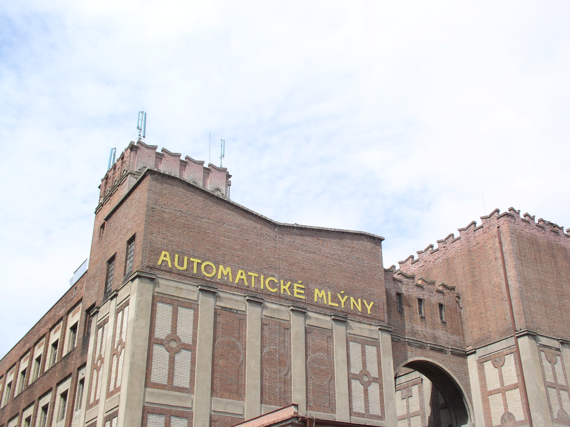 Winternitz Mills, Pardubice, 1909 - 1911